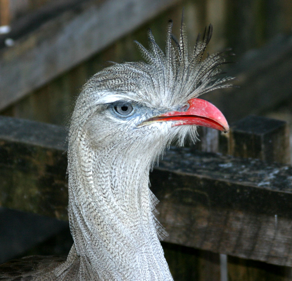 Red-legged Seriema, Cariama cristata. Location: Jacksonville Zoon, Florida, United States. (Captive bird)